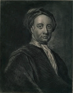 Engraving of George Vertue (1684-1756), engraver and antiquary.